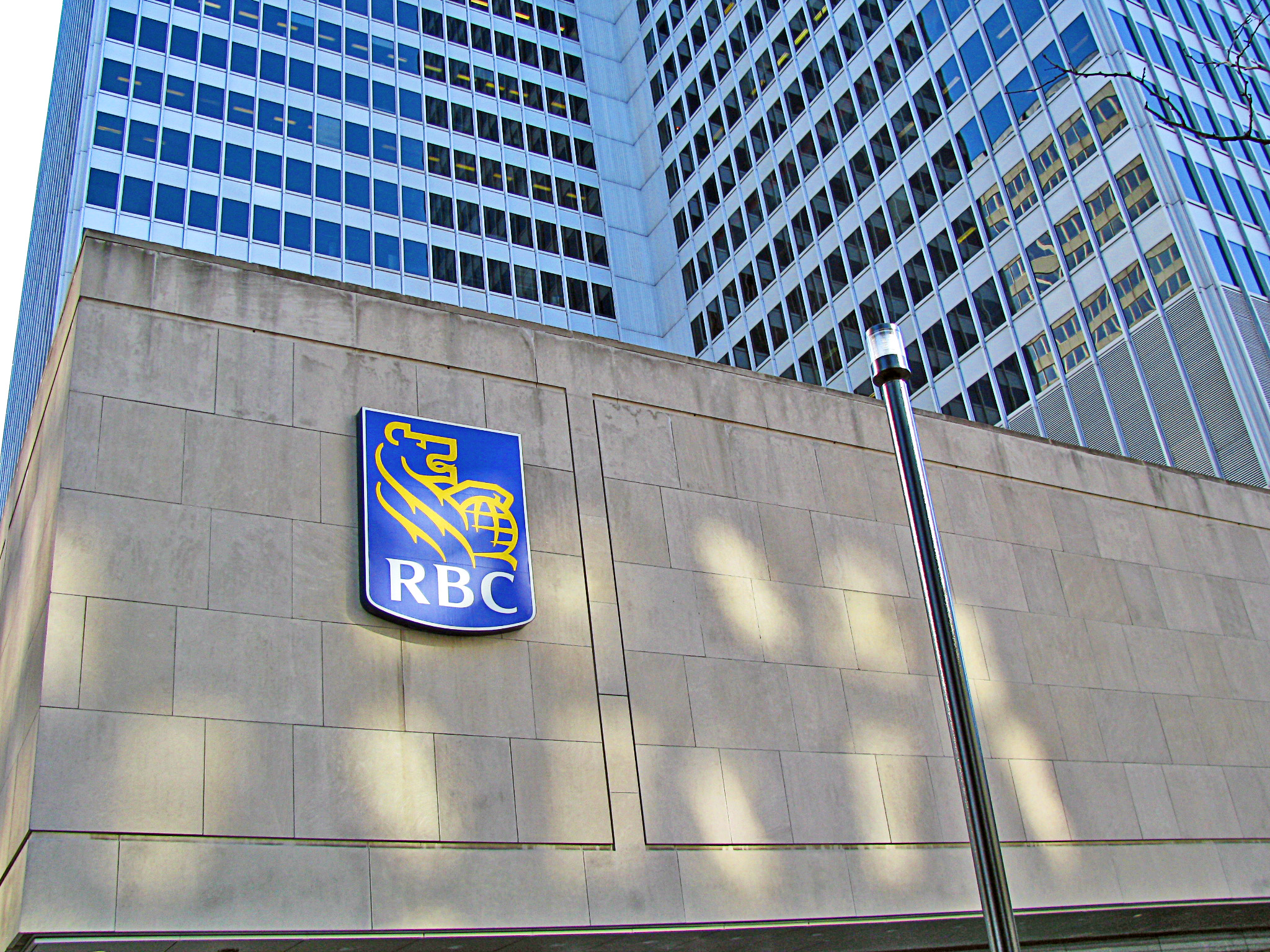 The Montreal head office of the Royal Bank of Canada is the Place Ville-Marie's largest tenant